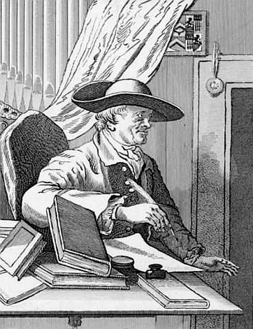 English librettist Thomas Morell (1703-1784) by James Basire (1730-1802) after William Hogarth (1697-1764). Etching published by Jones and Co, Temple of the Muses, Finsbury Square, London, 1763.